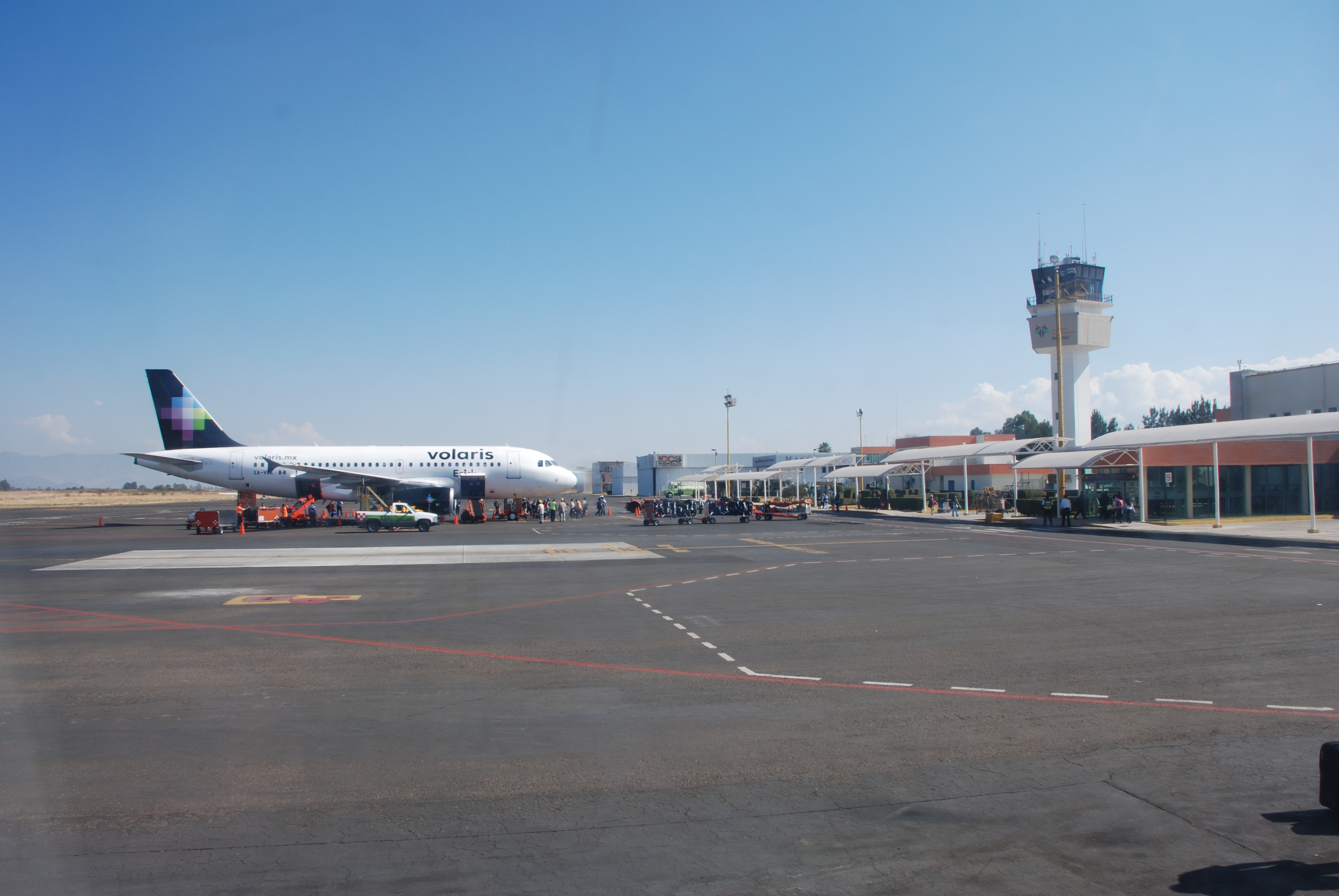 Volaris Airbus A319 at Morelia International Airport, Morelia, Michoacan, Mexico